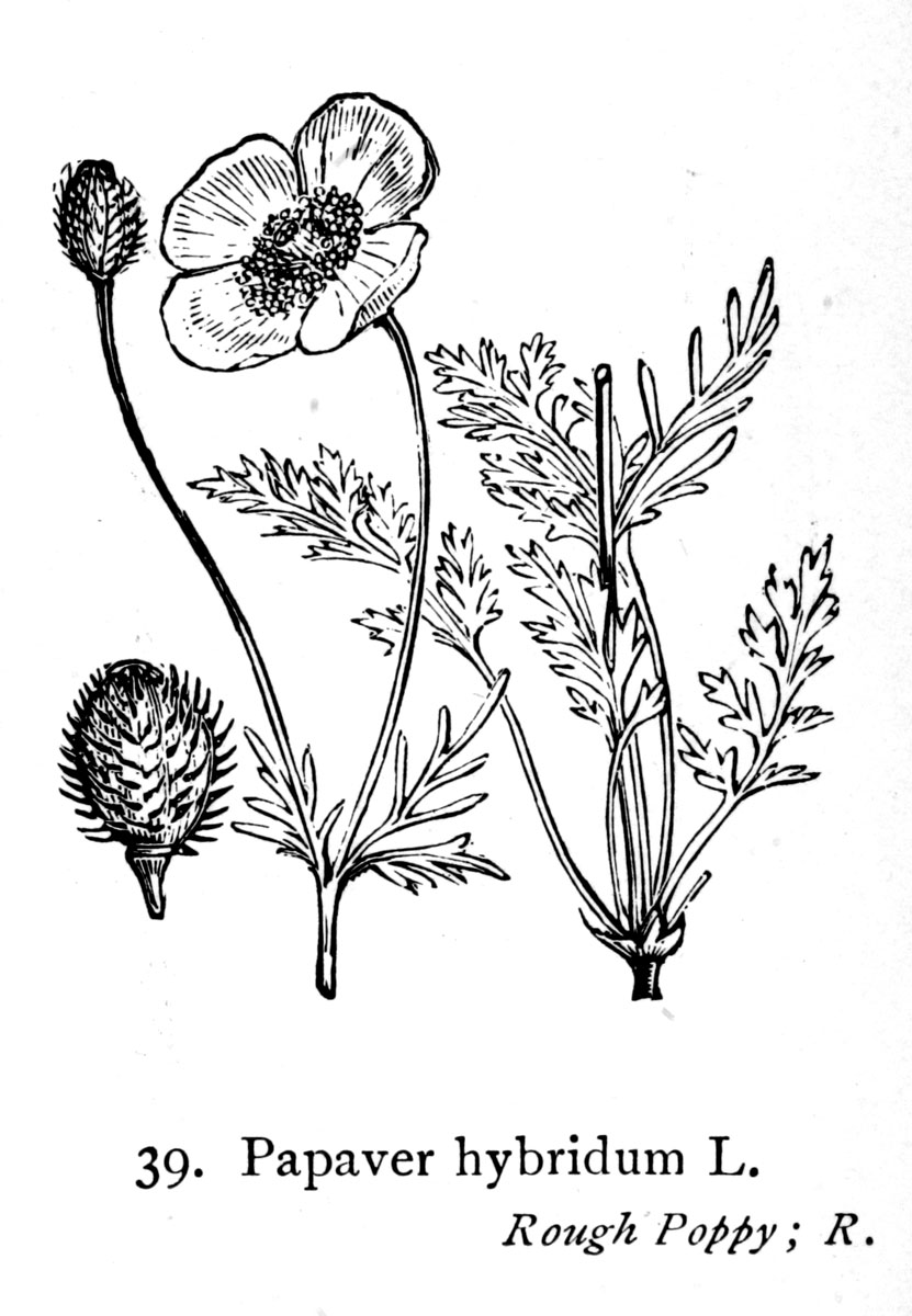 Illustrration of Papaver Hybridum